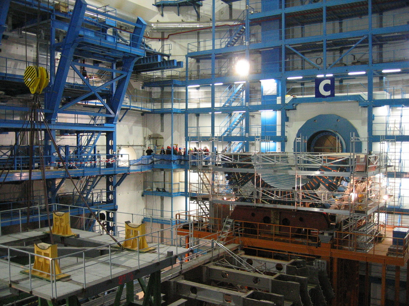 ATLAS detector being assebled in CERN